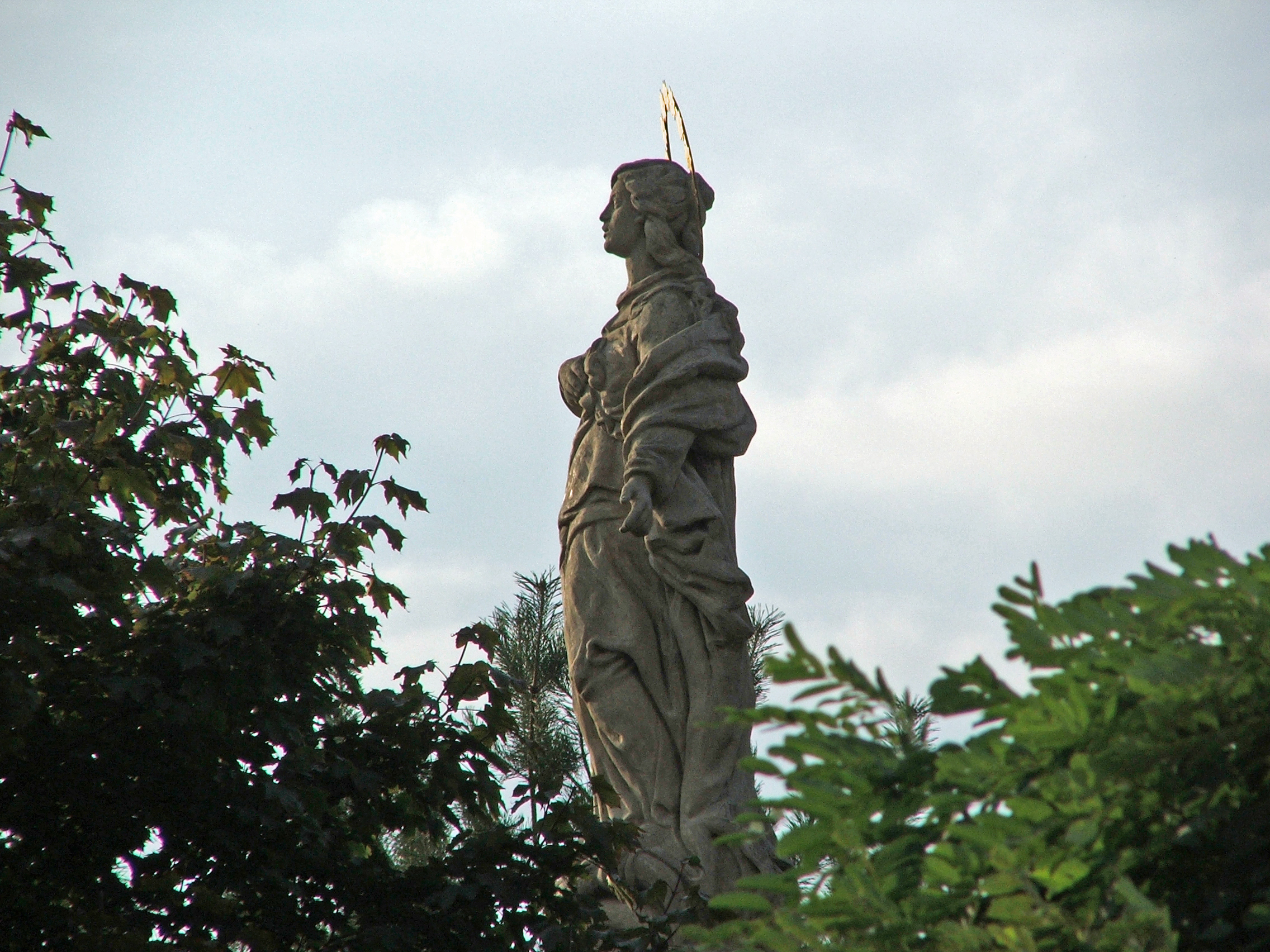 Mary Immaculate statue in Kossuth square, Tata